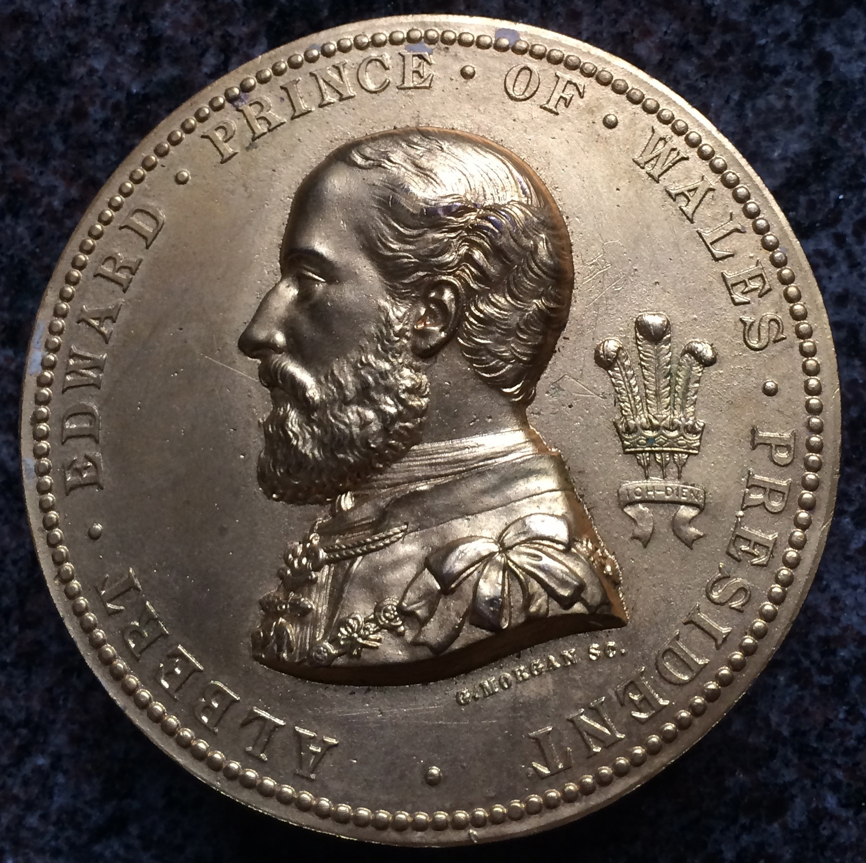 Medal of Albert Edward, Prince of Wales, after a design by Sir Joseph Edward Boehm (died 1890) see generally discussion [ here} and on earlier pages. Note that even though Morgan later emigrated, this is judged by UK rules.